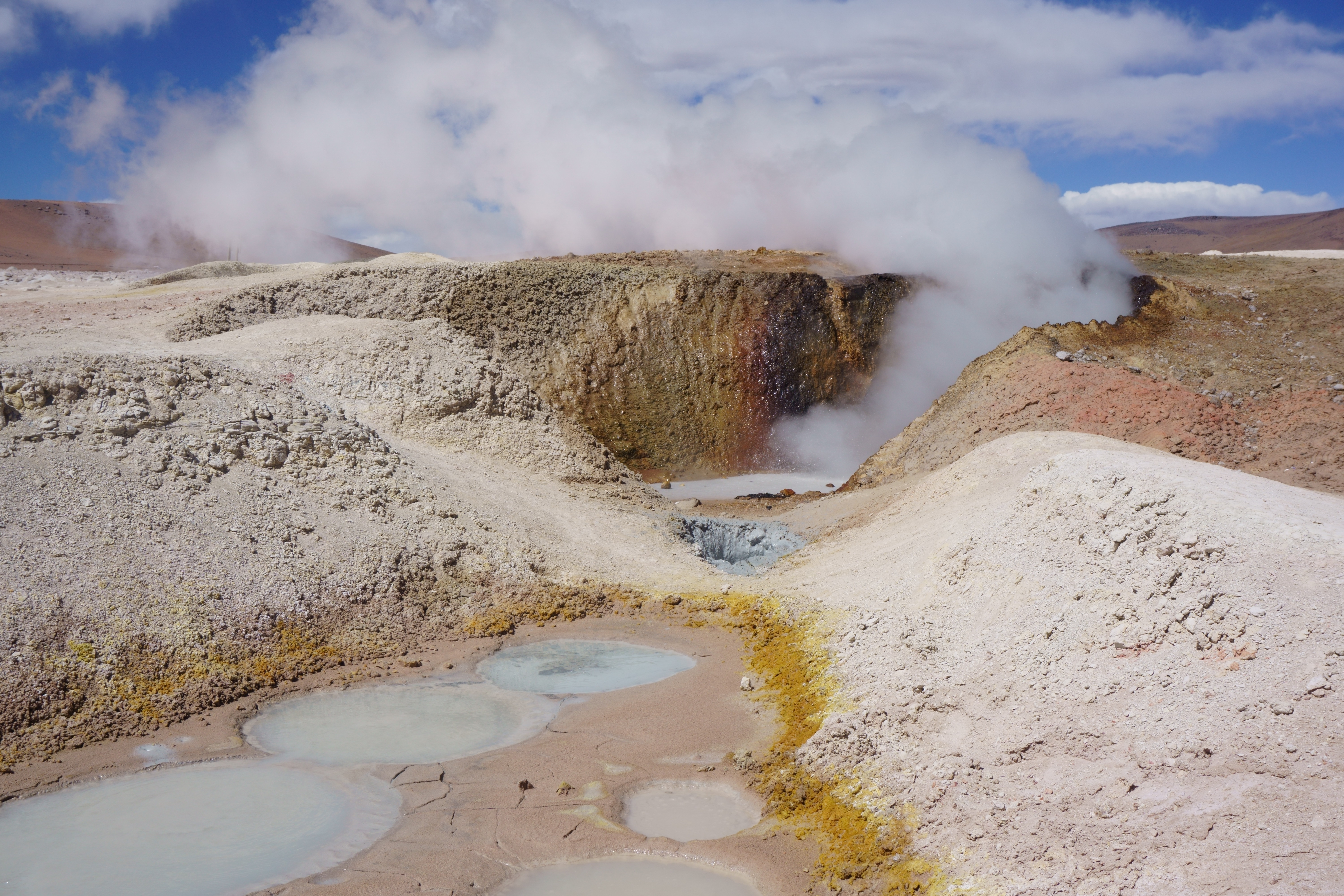 Sol de Mañana (Morning Sun in Spanish) is a geothermal field in Sur Lípez Province, Potosi Department, southwestern Bolivia. The field extends over 10 square kilometres (2,500 acres) and is between 4,800 metres (15,700 ft) and 5,000 metres (16,000 ft) high. The area, characterized by intense volcanic activity, with sulphur spring fields and mud lakes, has indeed no geysers but rather holes that emit pressurized steam up to 50 metres (160 ft) high.